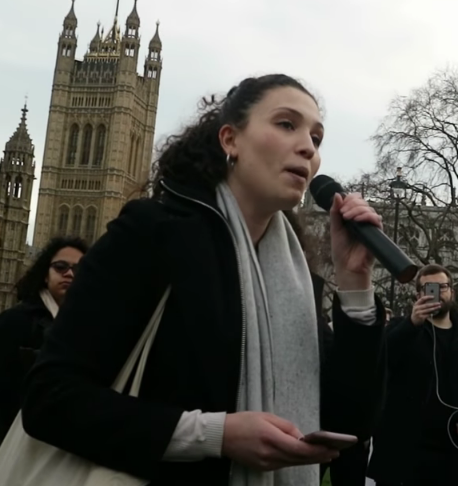 Malia Bouattia, President of the National Union of Students, speaks at a Stop Trump rally in Westminster in February 2017.